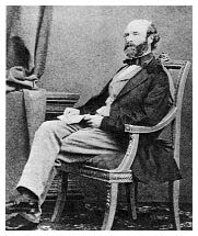 Photo of A. H. Haliday (1806-1870)